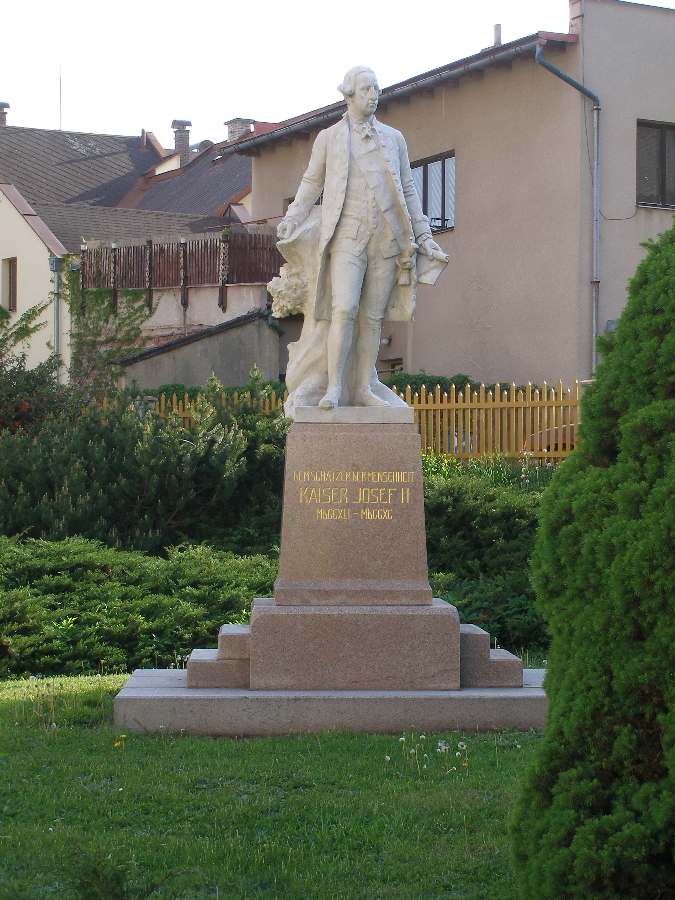 Hostinné (Arnau) - the Joseph II monument